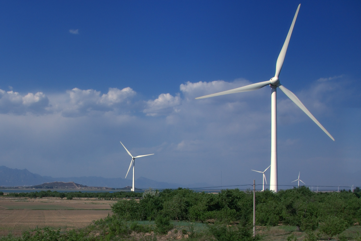 Wind Power Station at Guanting Reservoir, Zhangjiakou City, Hebei Province, P.R.China. Shot from Train 1456.